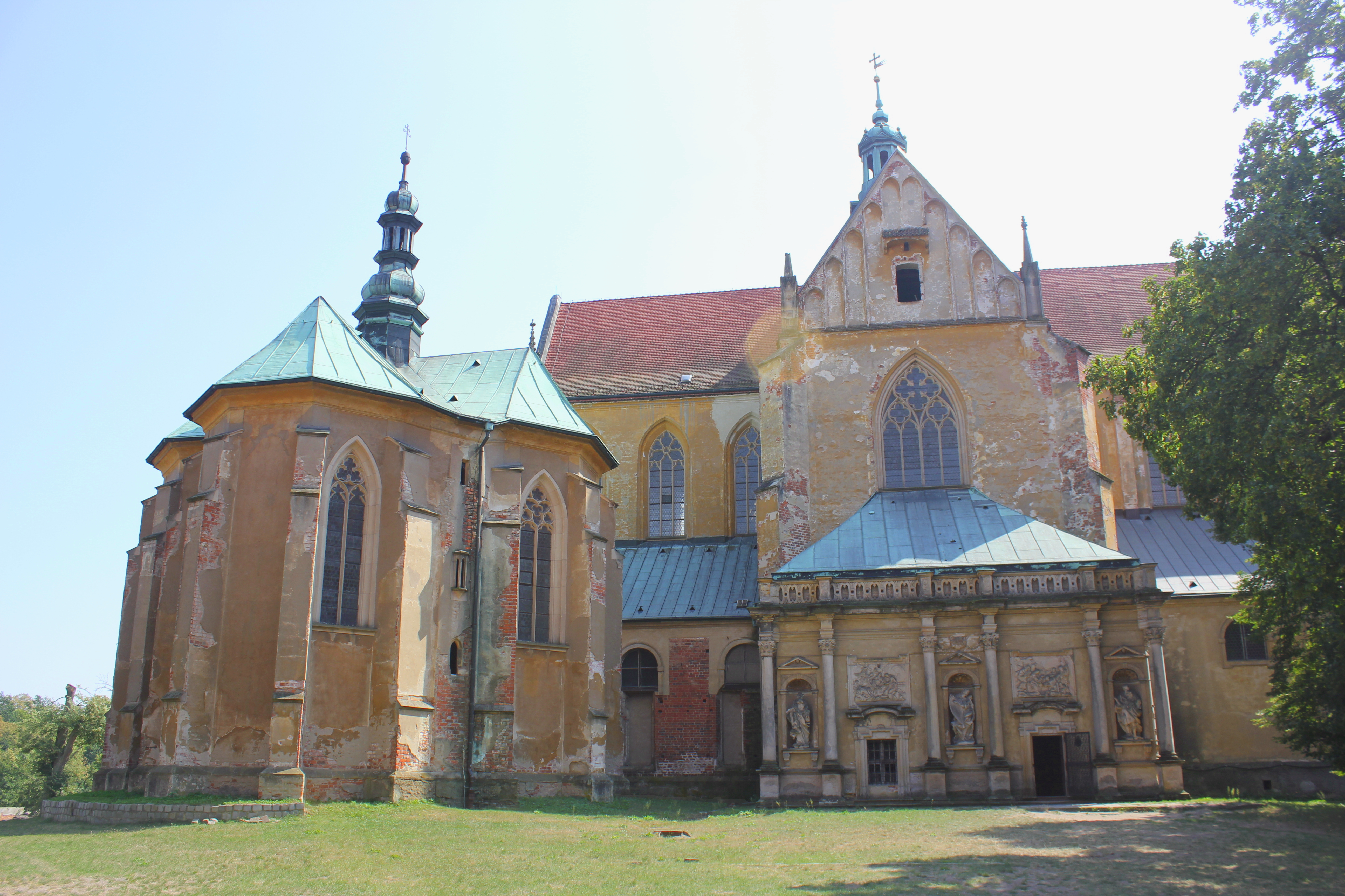 Lubiąż - former cistercian monastery